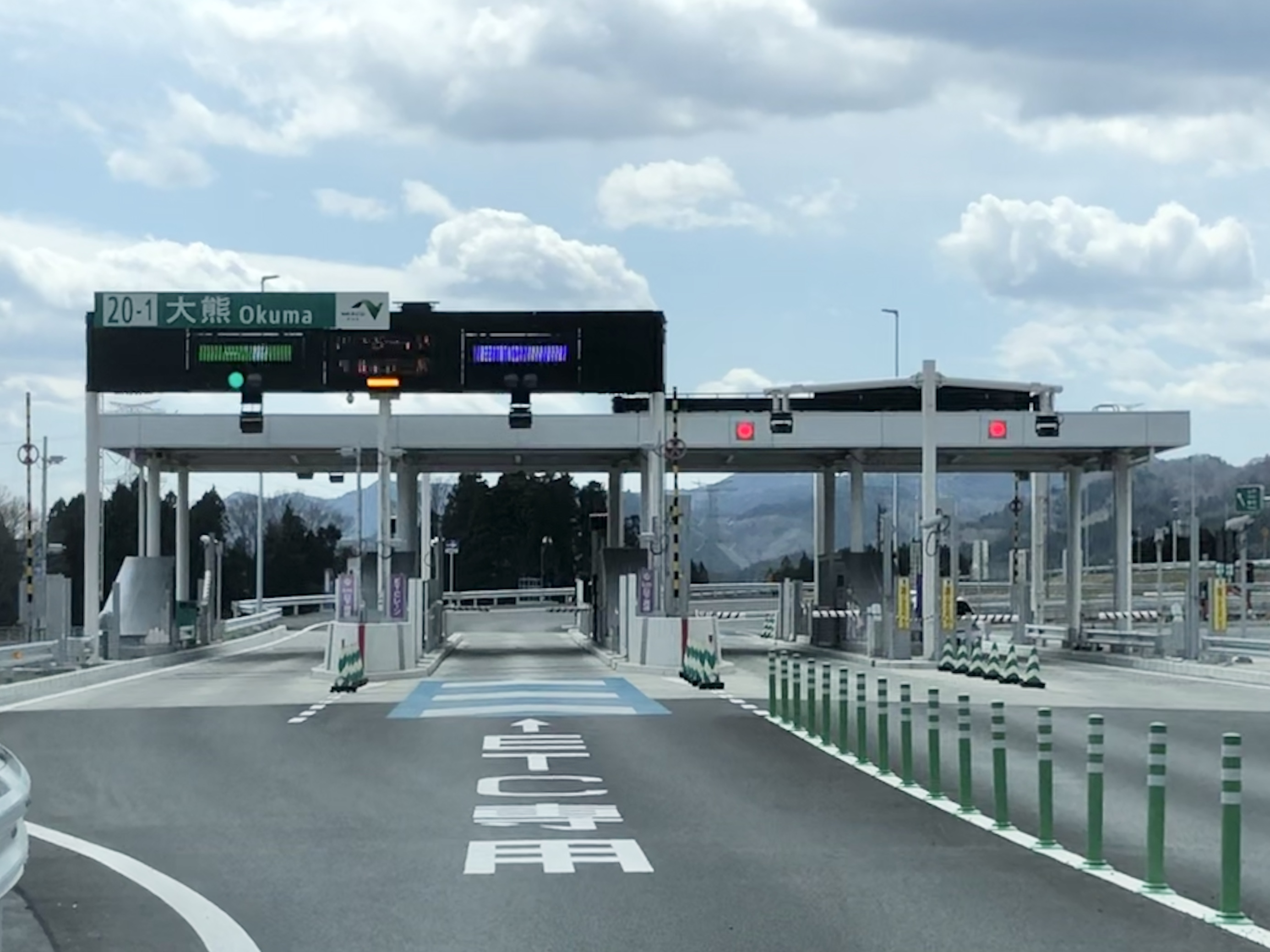 Joban Expressway Okuma Interchange (20-1)